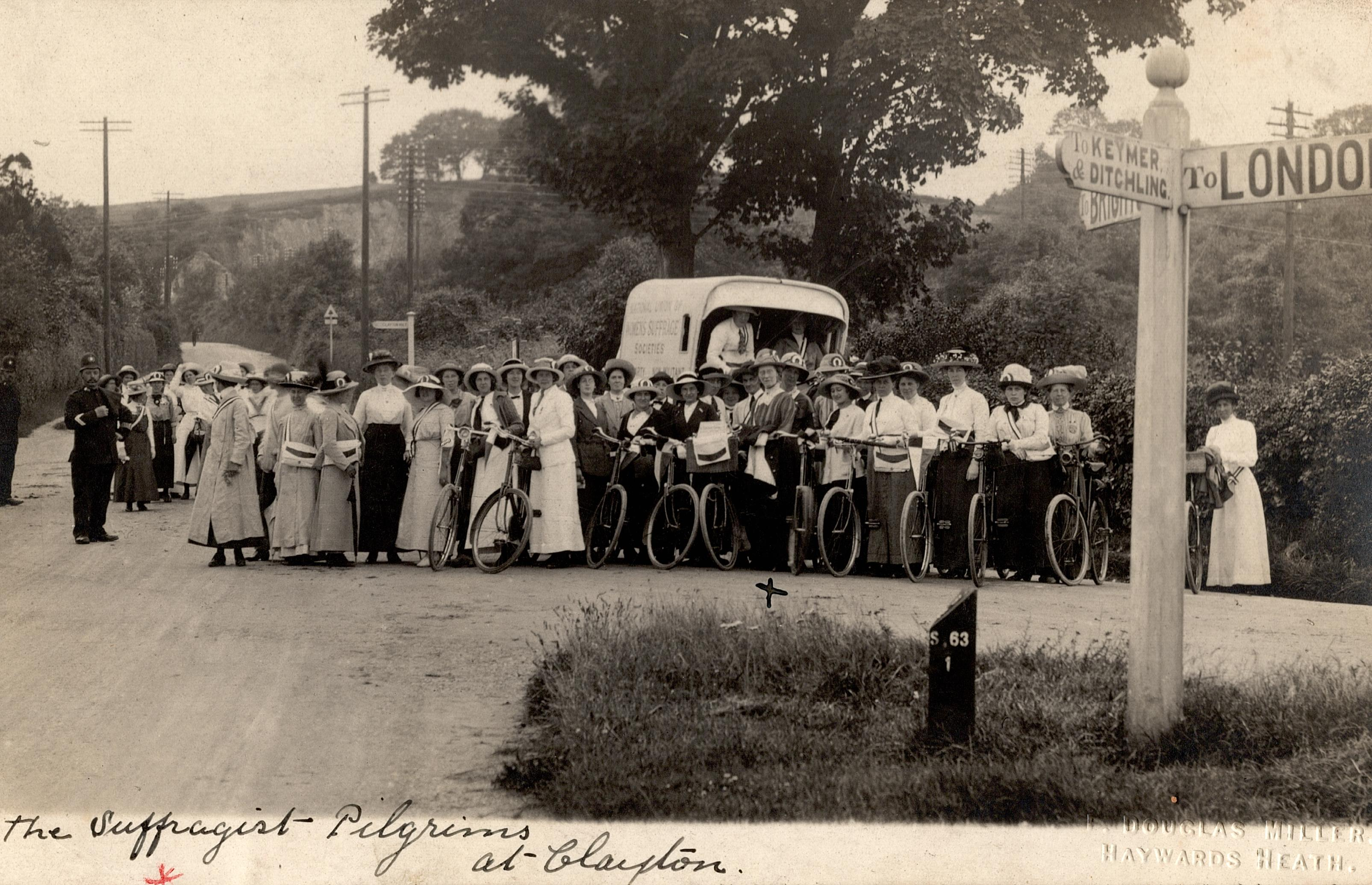 Flora (de Gaudrion) Merrifield, central figure marked with a cross, in Douglas Miller, ‘Women’s Suffrage Pilgrimage at Clayton, 21 July 1913’, 1913